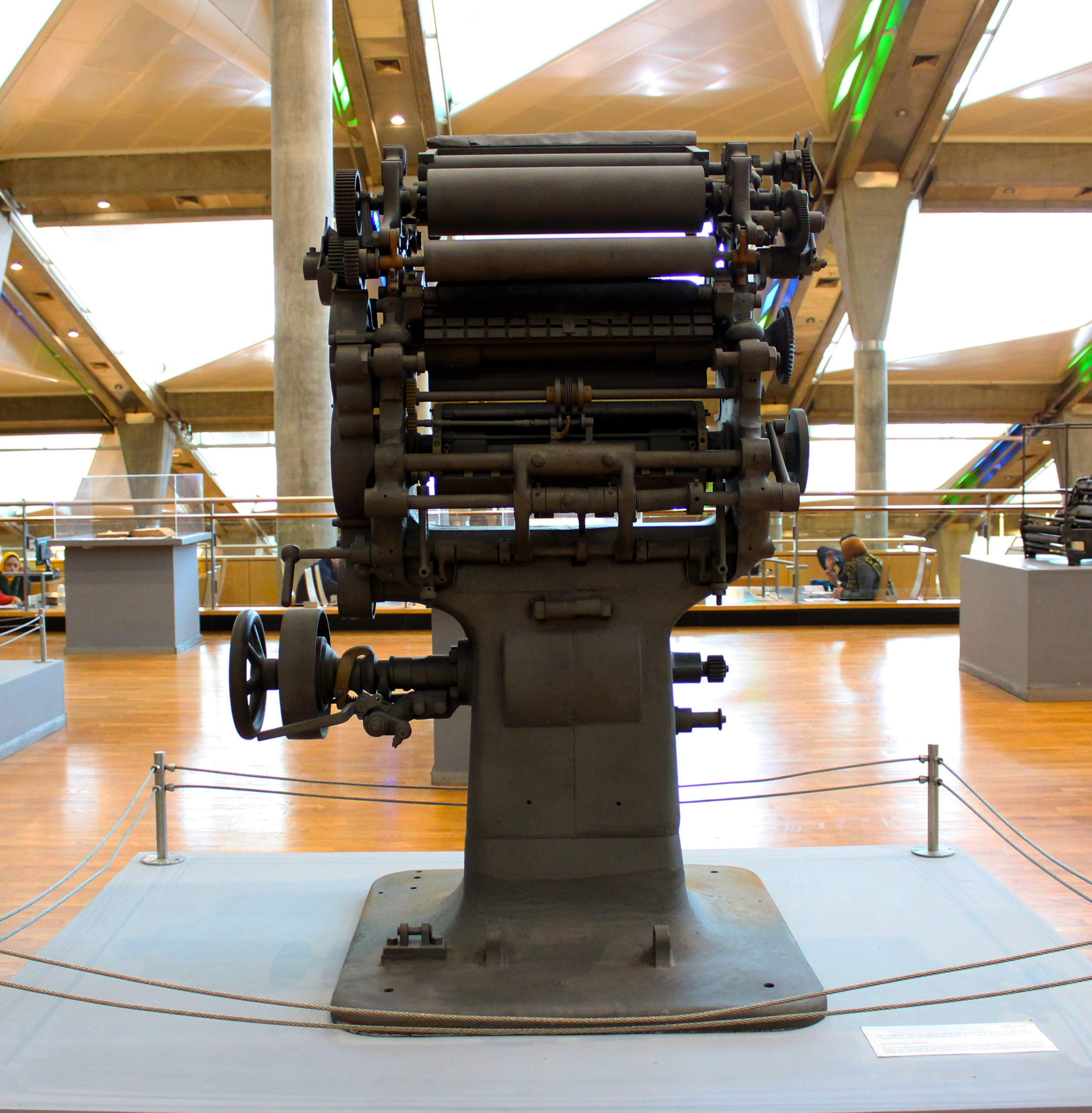 Machine Envelope Printer was one of the machine presses at the Bulaq Press. It was renovated during the reign of Khdeive Ismail. Purchased in 1869, the British-made printer was used to print all kinds of envelopes. It present now in Bibliotheca Alexandrina